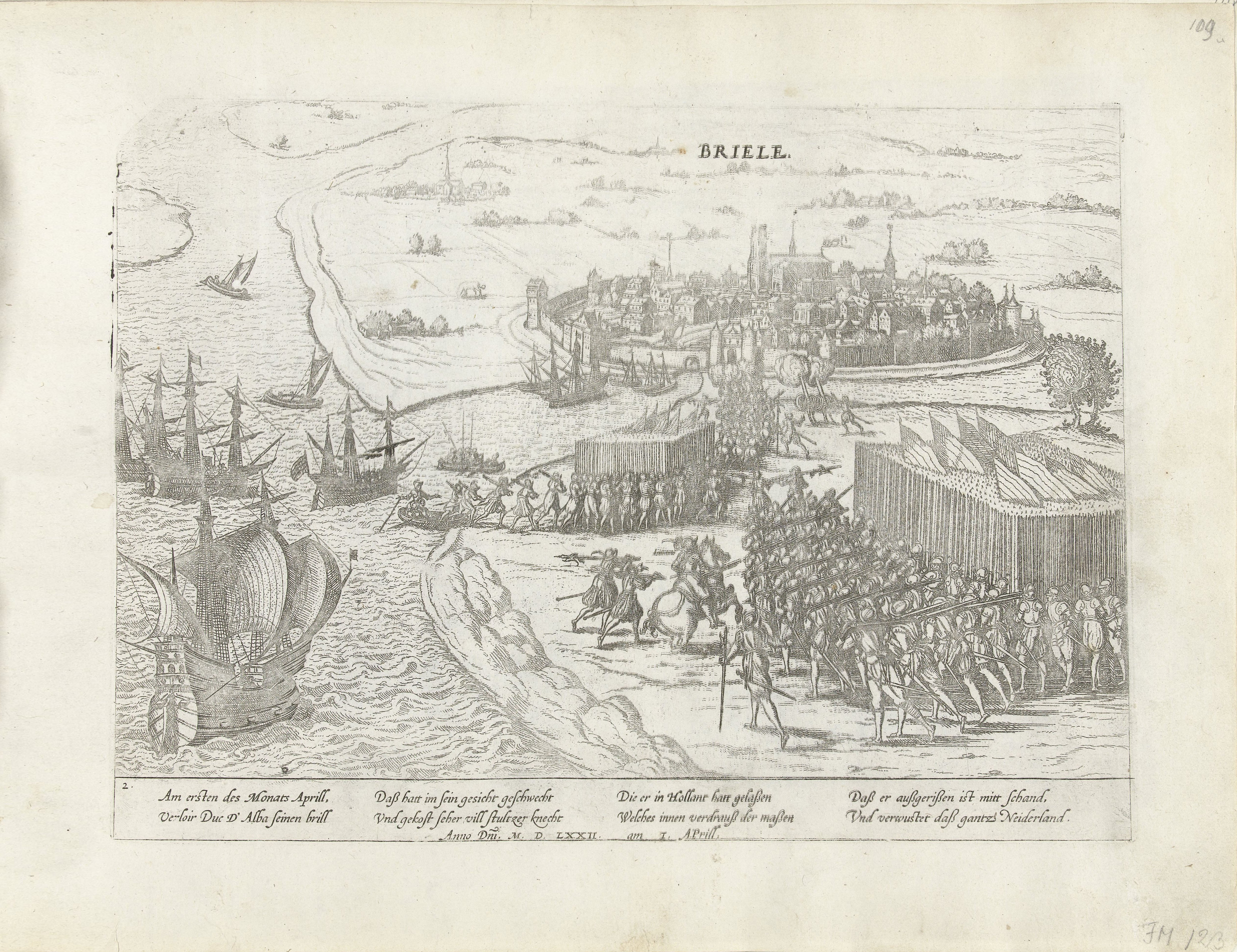 Part of the series {name }.